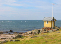 Photograph of a cottage in Torekov, Scania, on the side of the harbor facing the island Hallands Väderö, taken in the summer of 2006. (A section of larger picture which also includes the island)